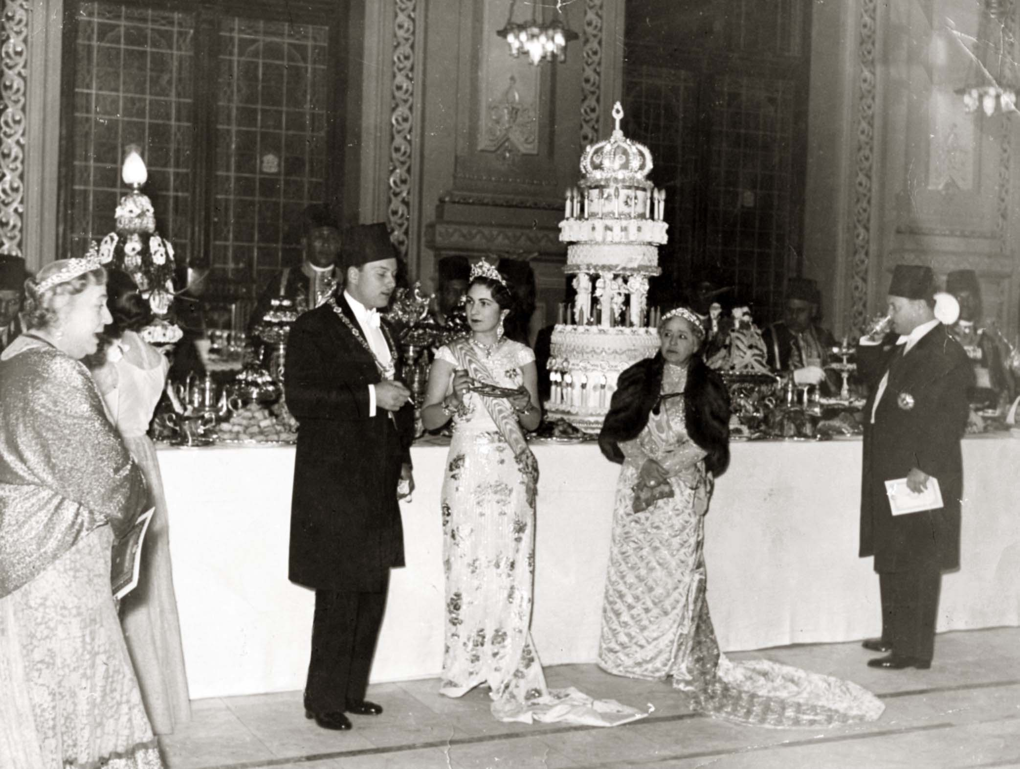 A banquet organized on the occasion of the wedding of King Farouk I and Queen Farida of Egypt. The persons appearing in the photograph are (from left to right): Princess Nimet Mouhtar (1876–1945), Farouk's paternal aunt; King Farouk I (1920–1965), the groom; Queen Farida (1921–1988), the bride; Sultana Melek (1869–1956), widow of Hussein Kamel, Farouk's paternal uncle; Prince Muhammad Ali Ibrahim (1900–1977), Farouk's 2nd cousin once removed.